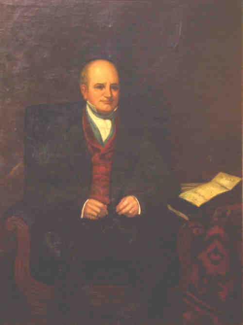 A painting which hangs in the Mayoral Gallery at the Derby City Council House.